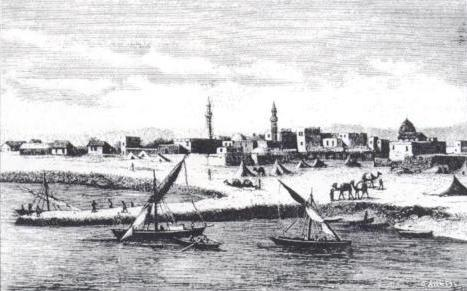 19th century engraving of Zeila